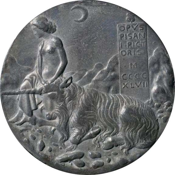 The reverse of a medal depicting the personification of Innocence with a unicorn in a moonlit landscape. The medal is the work of famed medalist Antonio di Puccio Pisano, more commonly known as Pisanello, and is made of a lead alloy.